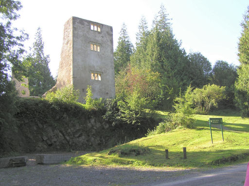 Castle Archdale. Castle Archdale Country Park is situated about 10 miles north west of Enniskillen